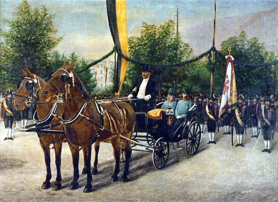 Arrival of Emperor Franz Joseph I and Archduke Franz Ferdinand in Merano, 1900. After postcard Kaiserfest Meran-pass eggs.